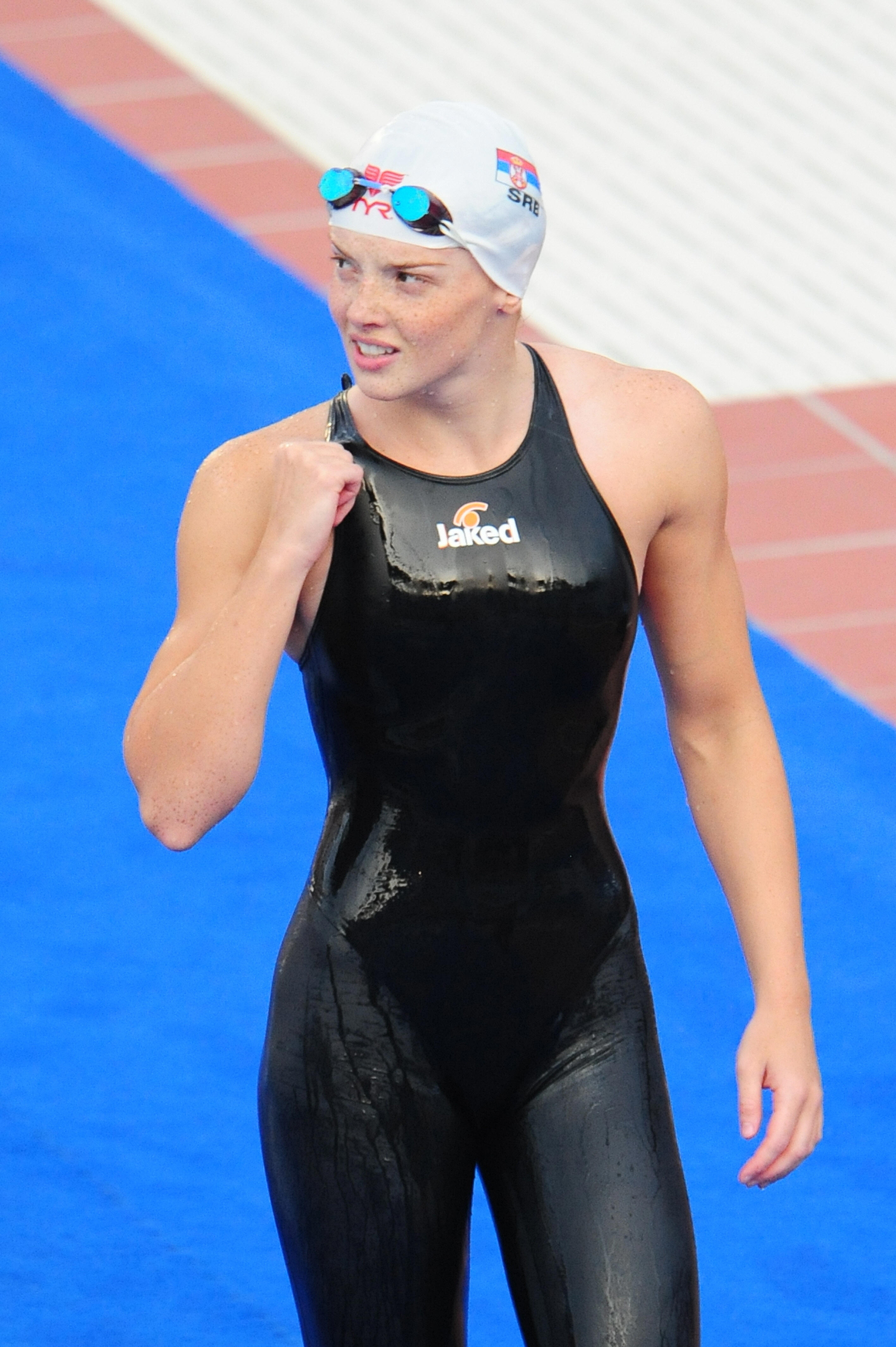 Nađa Higl wearing a Jaked swimsuit at the 2010 European Aquatics Championships in Budapest